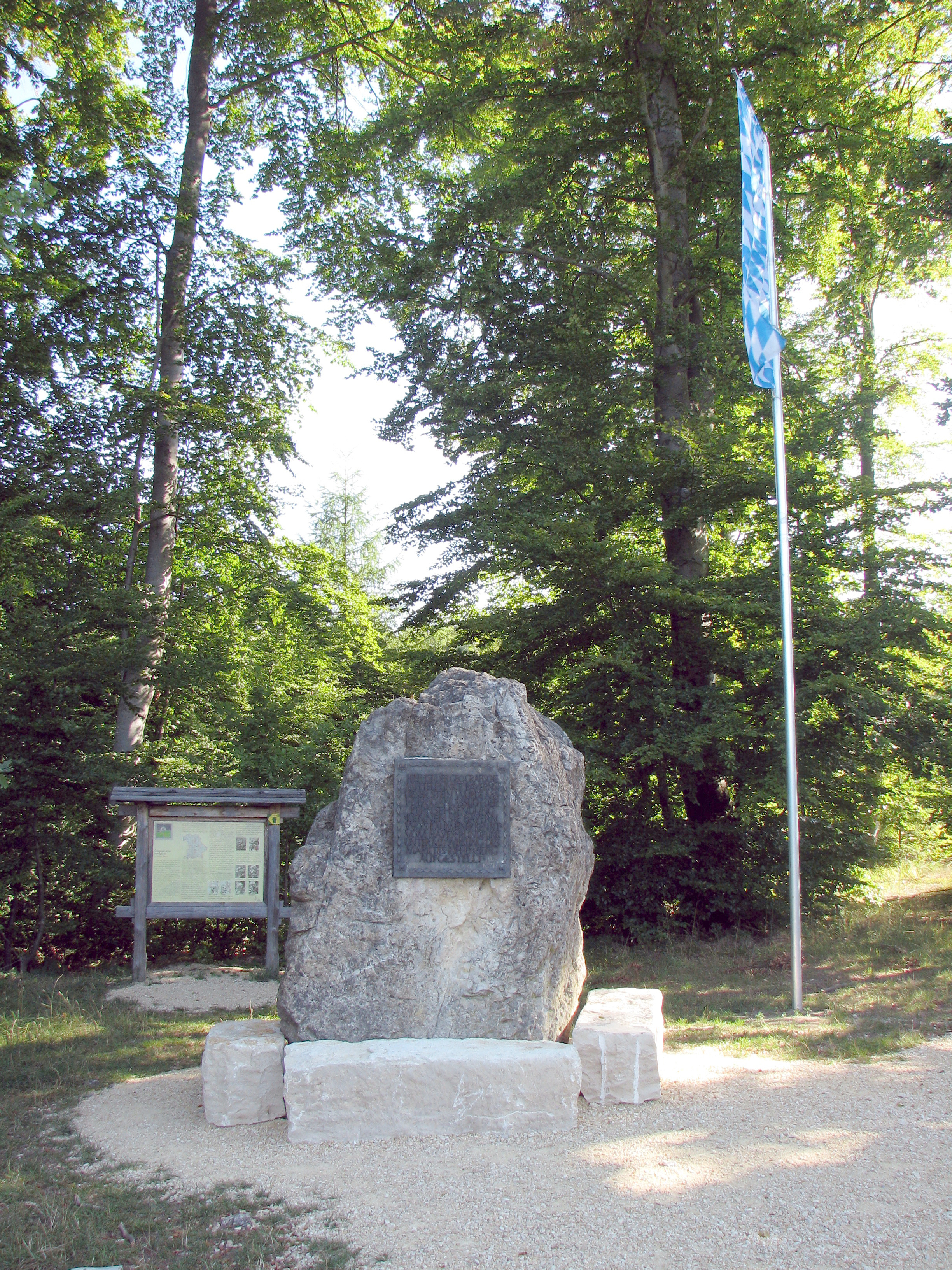 Marker of the Geographical center of Bavaria (Bayern) near Kipfenberg